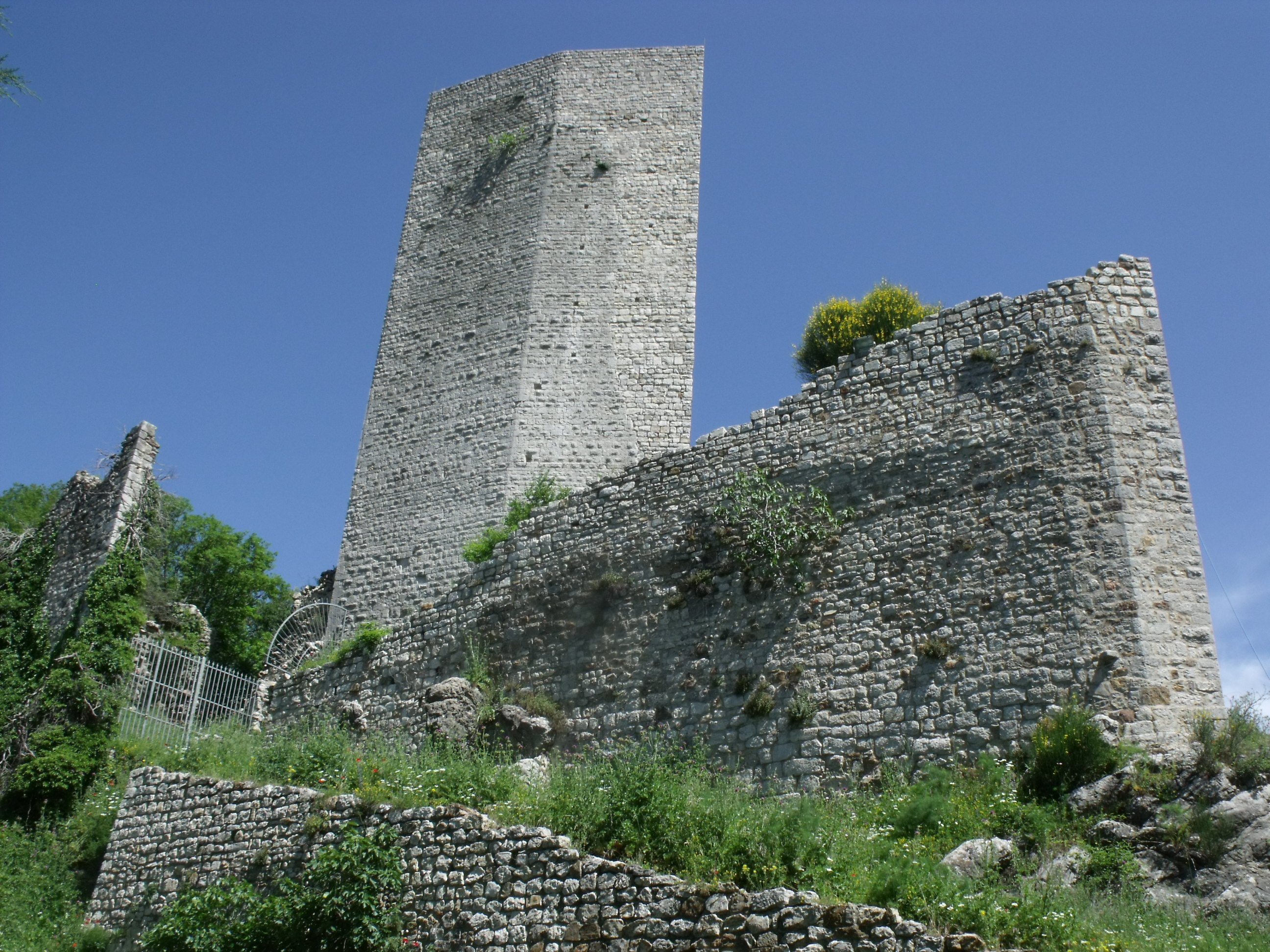 Castle Rocca Silvana near Selvena, Castell’Azzara, Monte Amiata Area, Province of Grosseto, Tuscany Italy